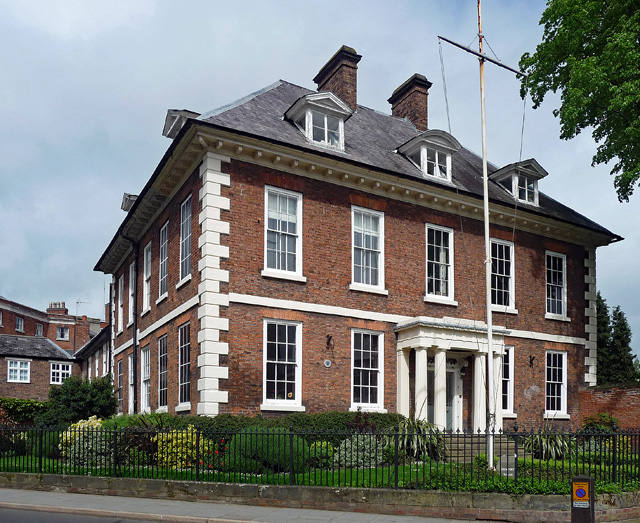 Photograph of Newport House (also known as The Guildhall), Dogpole, Shrewsbury, Shropshire, England